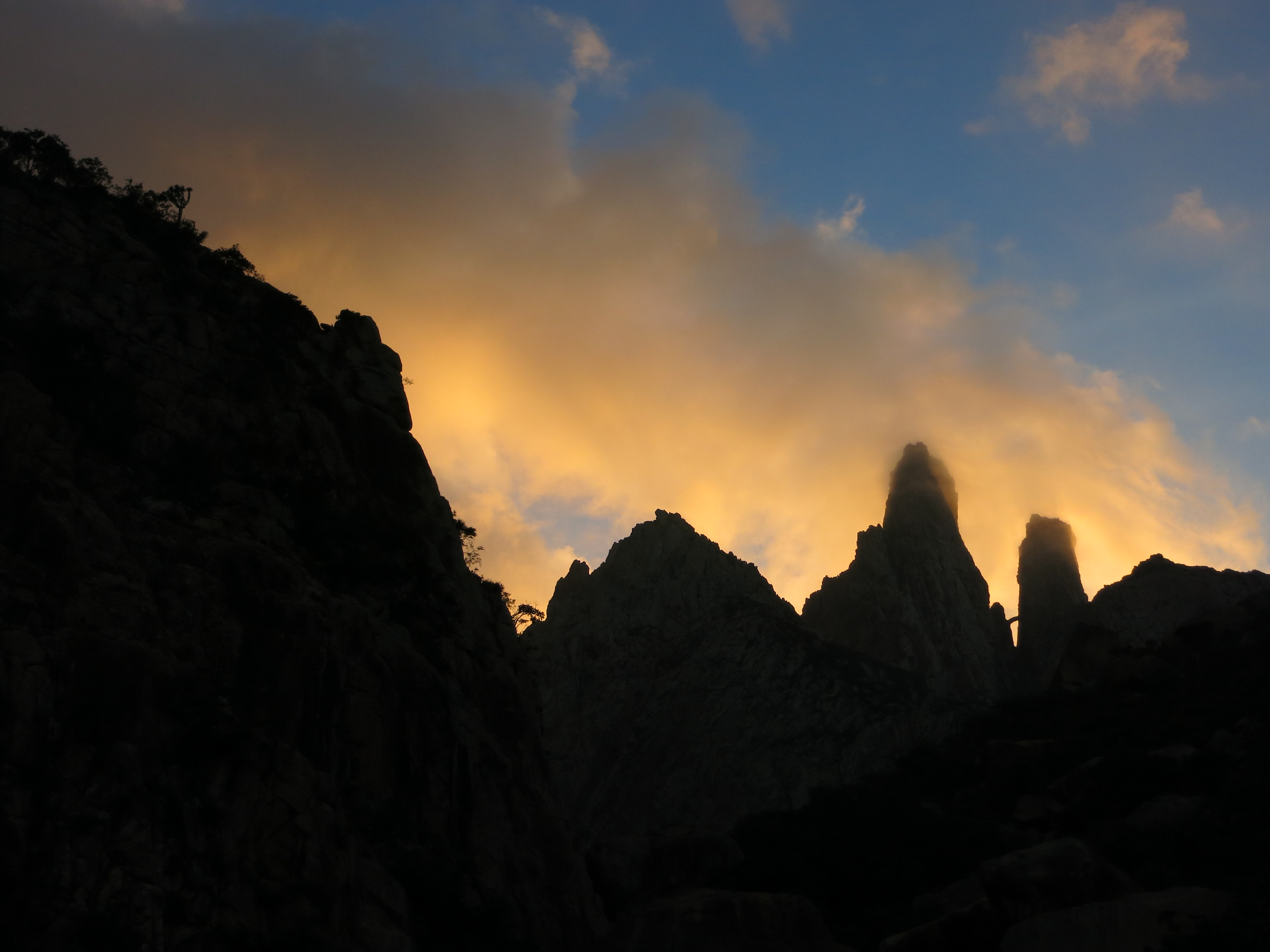 Ultra-high point of the Hajhir massif